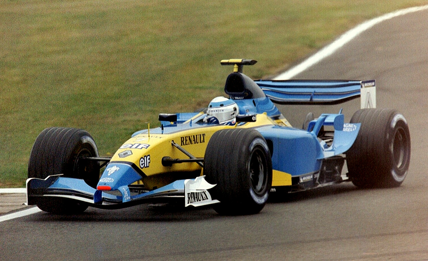 Jarno Trulli, driving his Mild Seven Renault at the 2003 British Grand Prix.